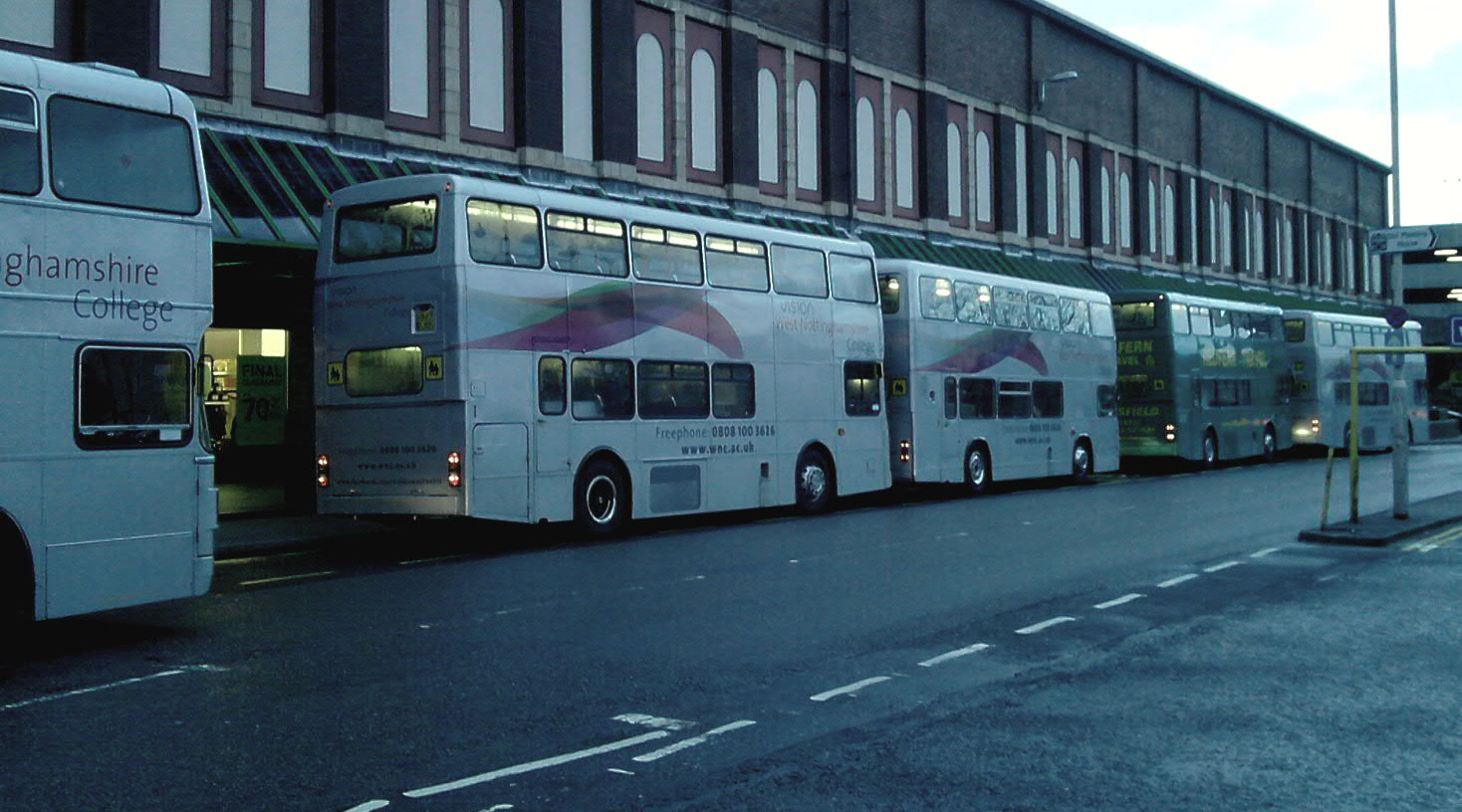 Vision West Nottinghamshire College shuttle buses awaiting passengers outside Rosemary Centre shopping area in Mansfield town centre, providing students' transport around the various college sites and the general locality